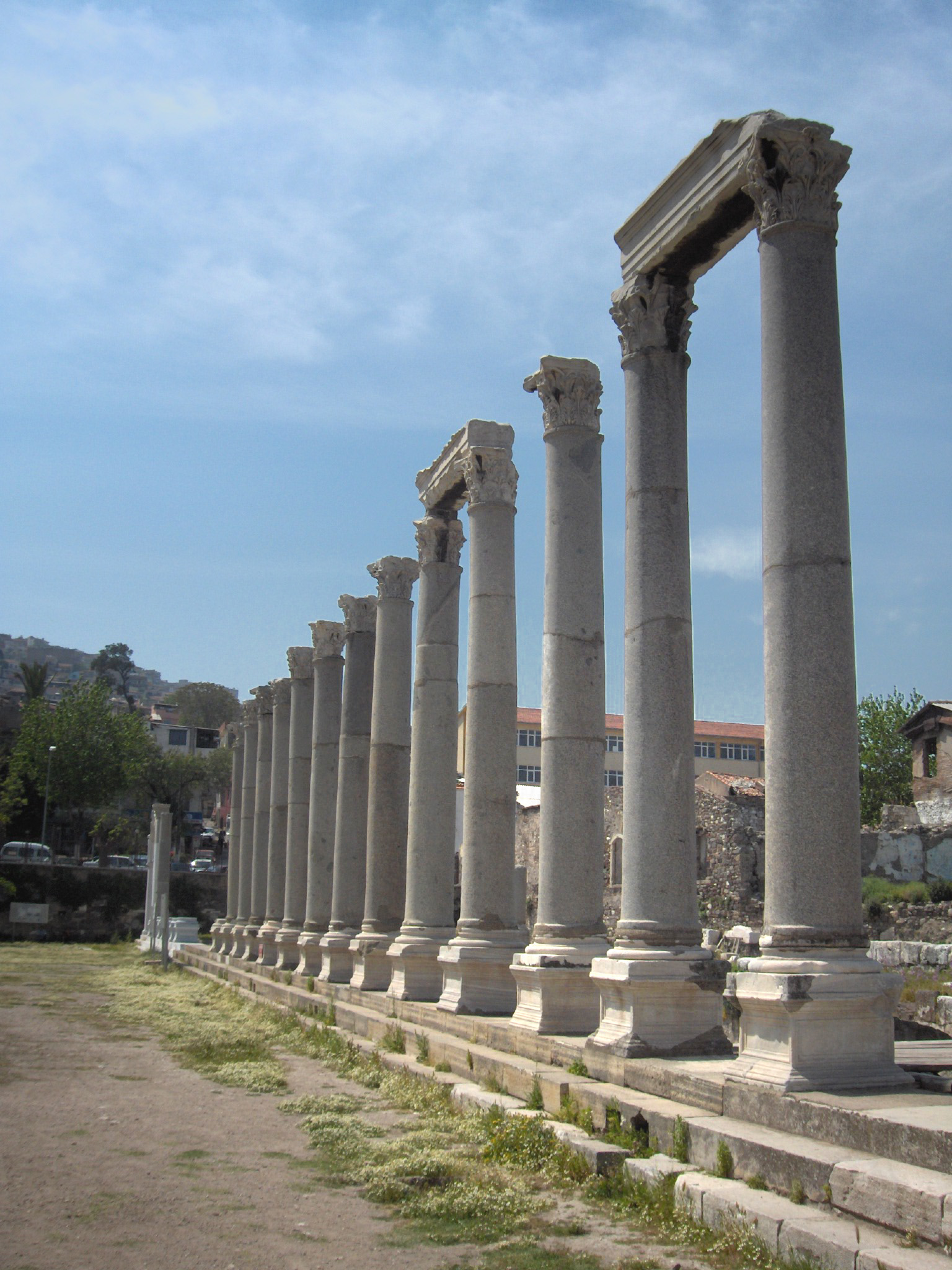 View on the agora : columns alonn the western stoa; ; Izmir, Turkey